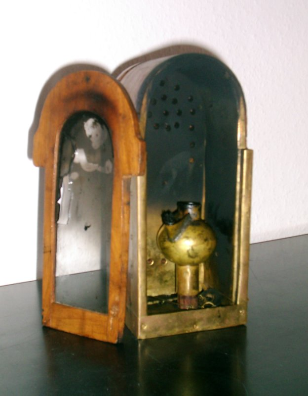 Freiberger Blende - a early miners illumination